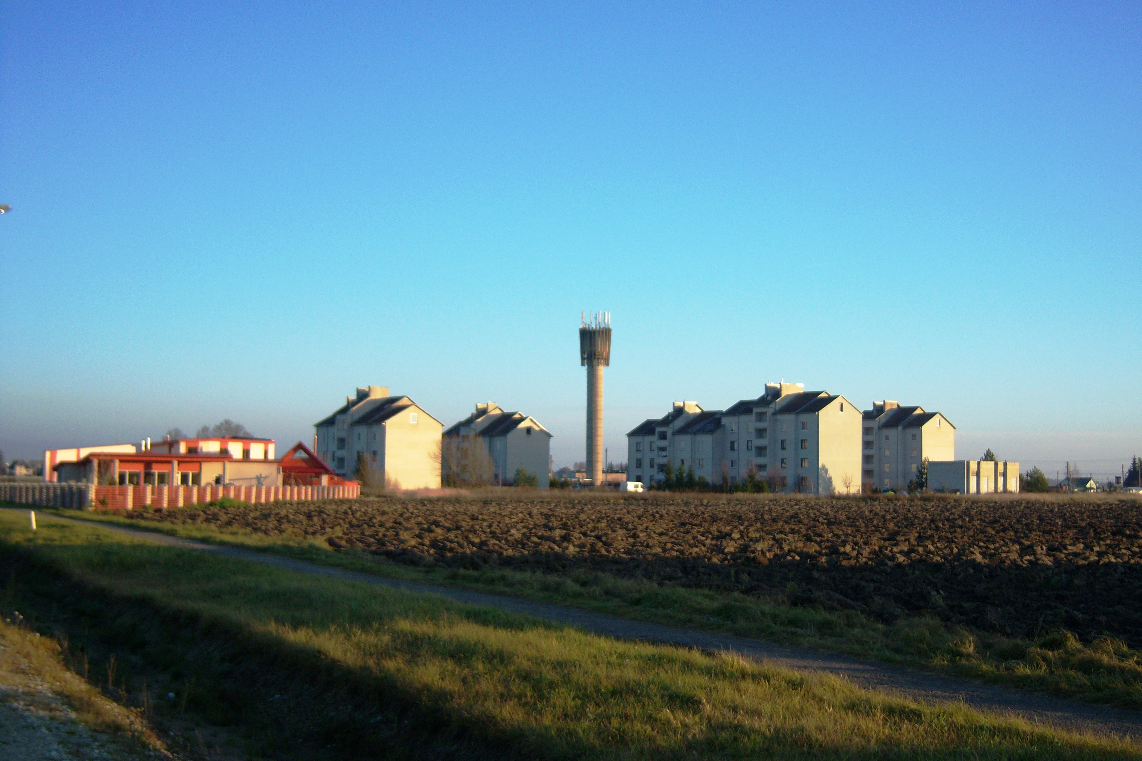 Mastaičiai, Kaunas District. Lithuania